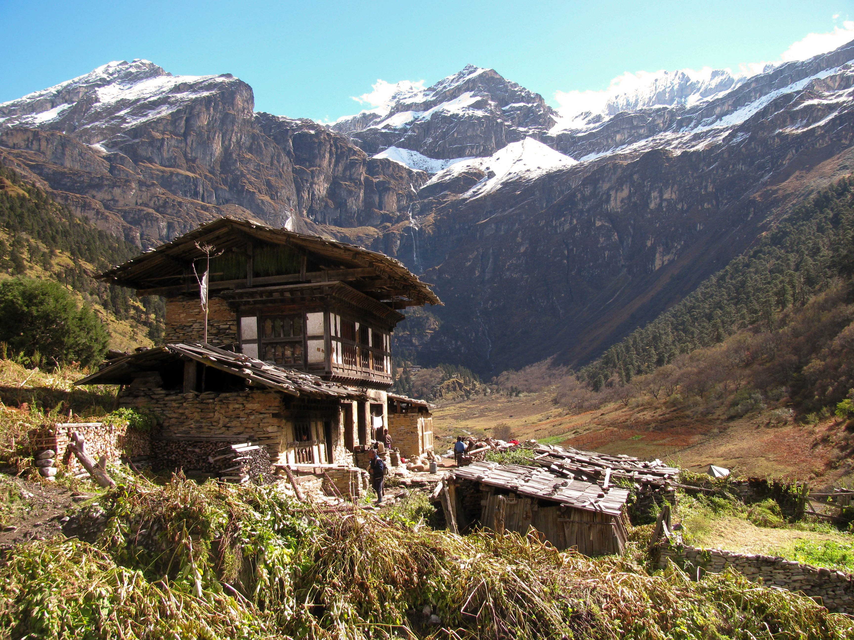 A Bhutanese farmhouse in Yaksa, Soe Gewog, Bhutan